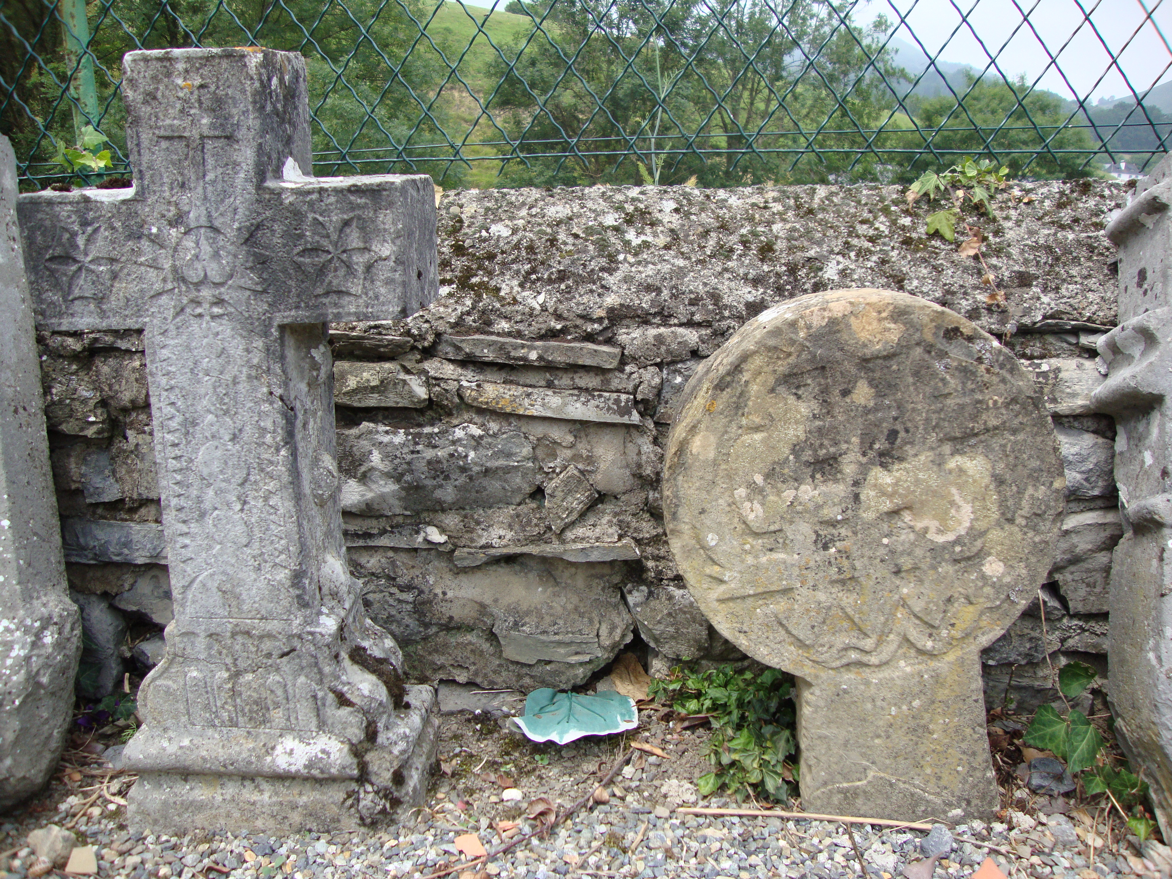 Aussurucq (Pyr-Atl, Fr)old (discoidal) steles.